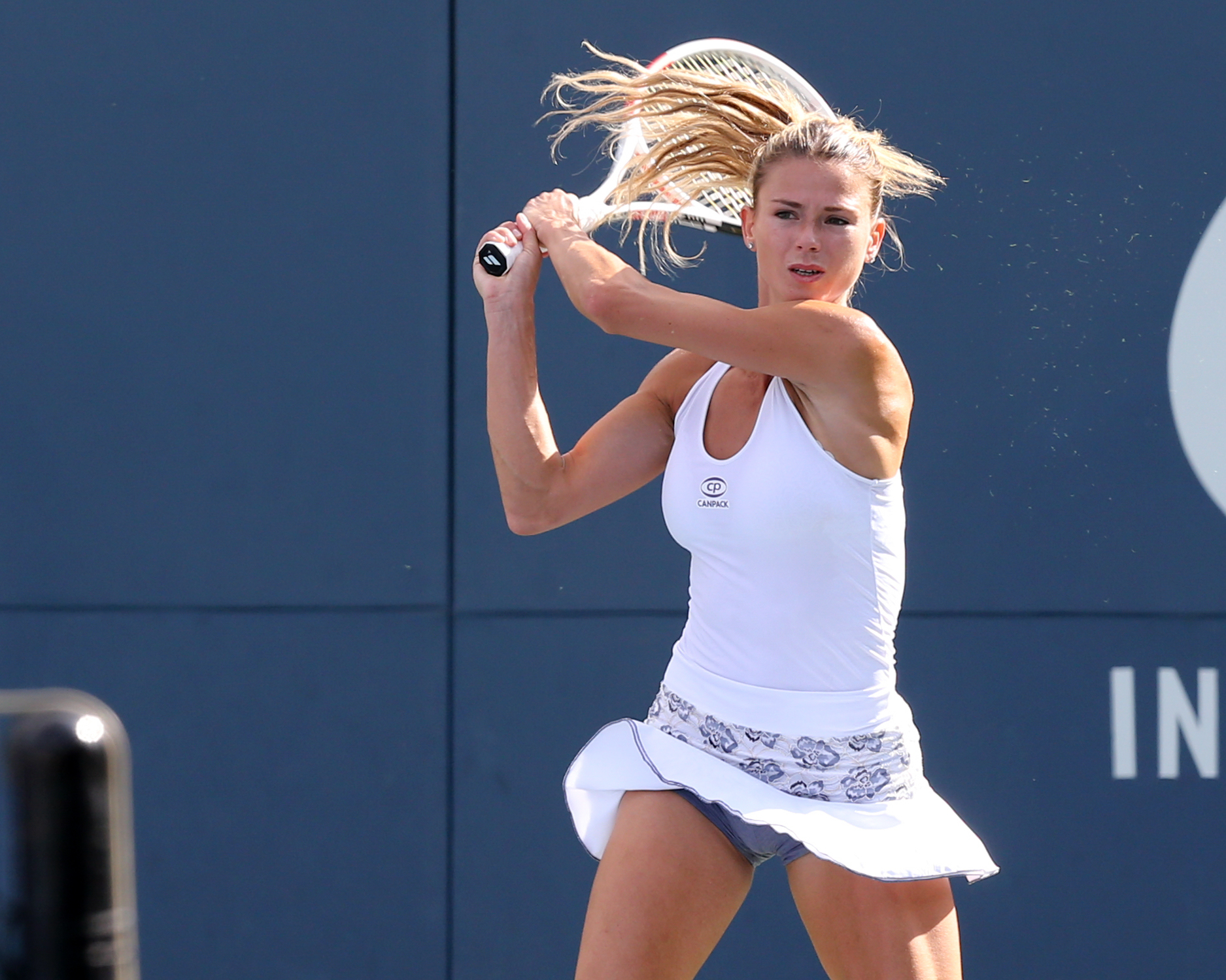 Camila Giorgi of Italy in third set action in the finals of the 2019 Bronx Open against Maga Linette of Poland at the Cary Leeds Center for Tennis and Learning in Crotona Park in the Charlotte Gardens neighborhood of the New York City borough of the Bronx. Linette won in three sets 5-7, 7-5, 6-4. Photo by Bruce Adler